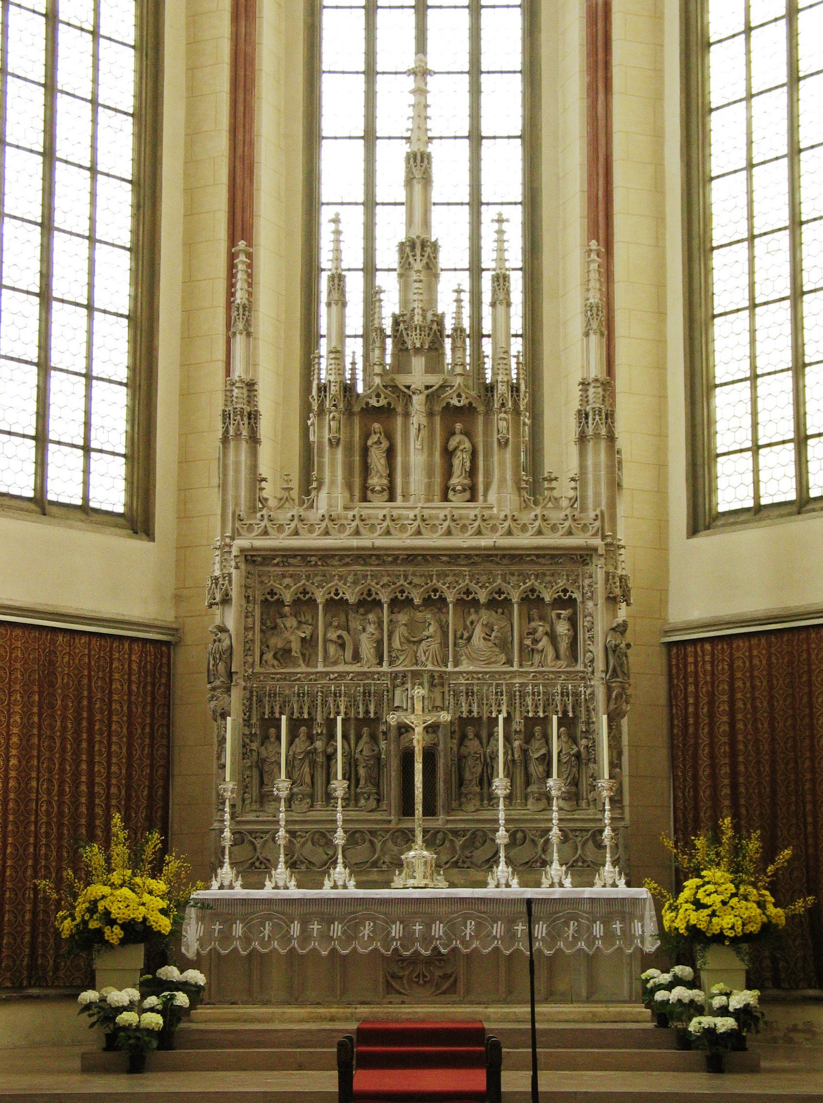 Landshut, Church of St Martin, main altar